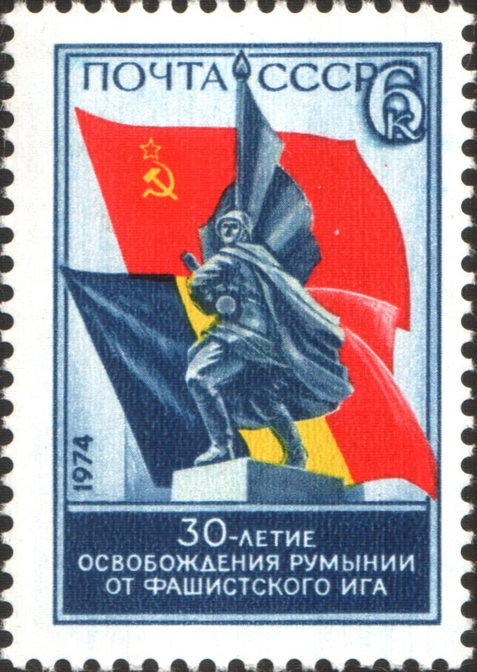 USSR stamp